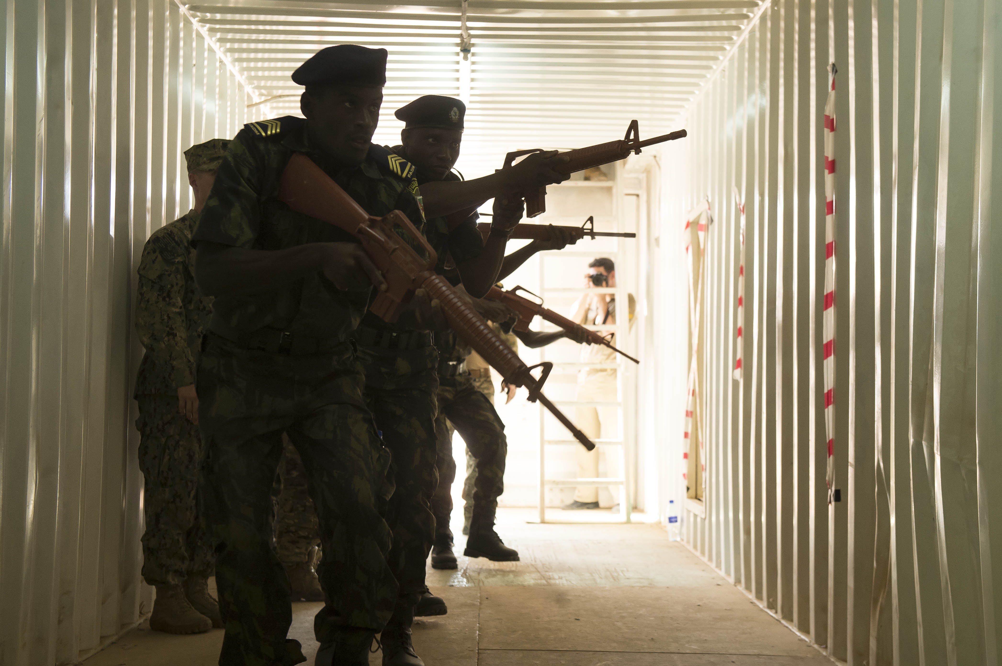 170202-N-FQ994-344 DJIBOUTI, Djibouti (Feb. 2, 2017) - Mozambique Marines practice tactical movements during exercise Cutlass Express 2017. Exercise Cutlass Express 2017, sponsored by U.S. Africa Command and conducted by U.S. Naval Forces Africa, is designed to assess and improve combined maritime law enforcement capacity and promote national and regional security in East Africa. (U.S. Navy photo by Mass Communication Specialist 3rd Class Robert Price/Released)